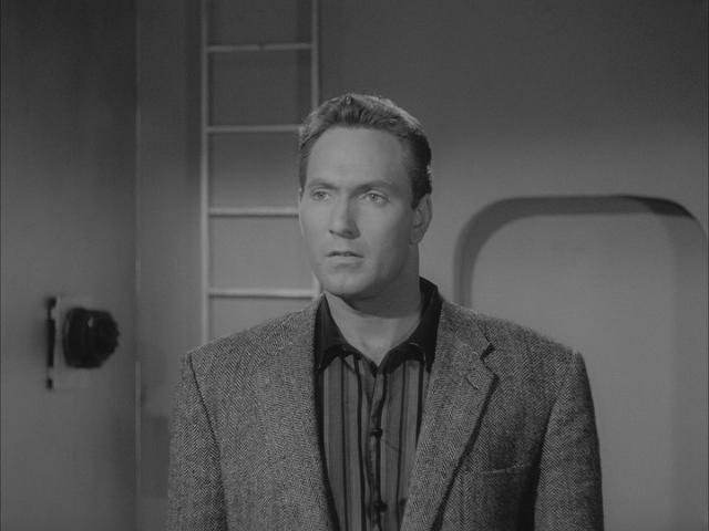 Film: Plan 9 from Outer Space (1959) Director: Ed Wood, Jr. Actor Portrayed: Gregory Walcott The original 1959 version of this film is public domain, although there may be a copyright on the musical score